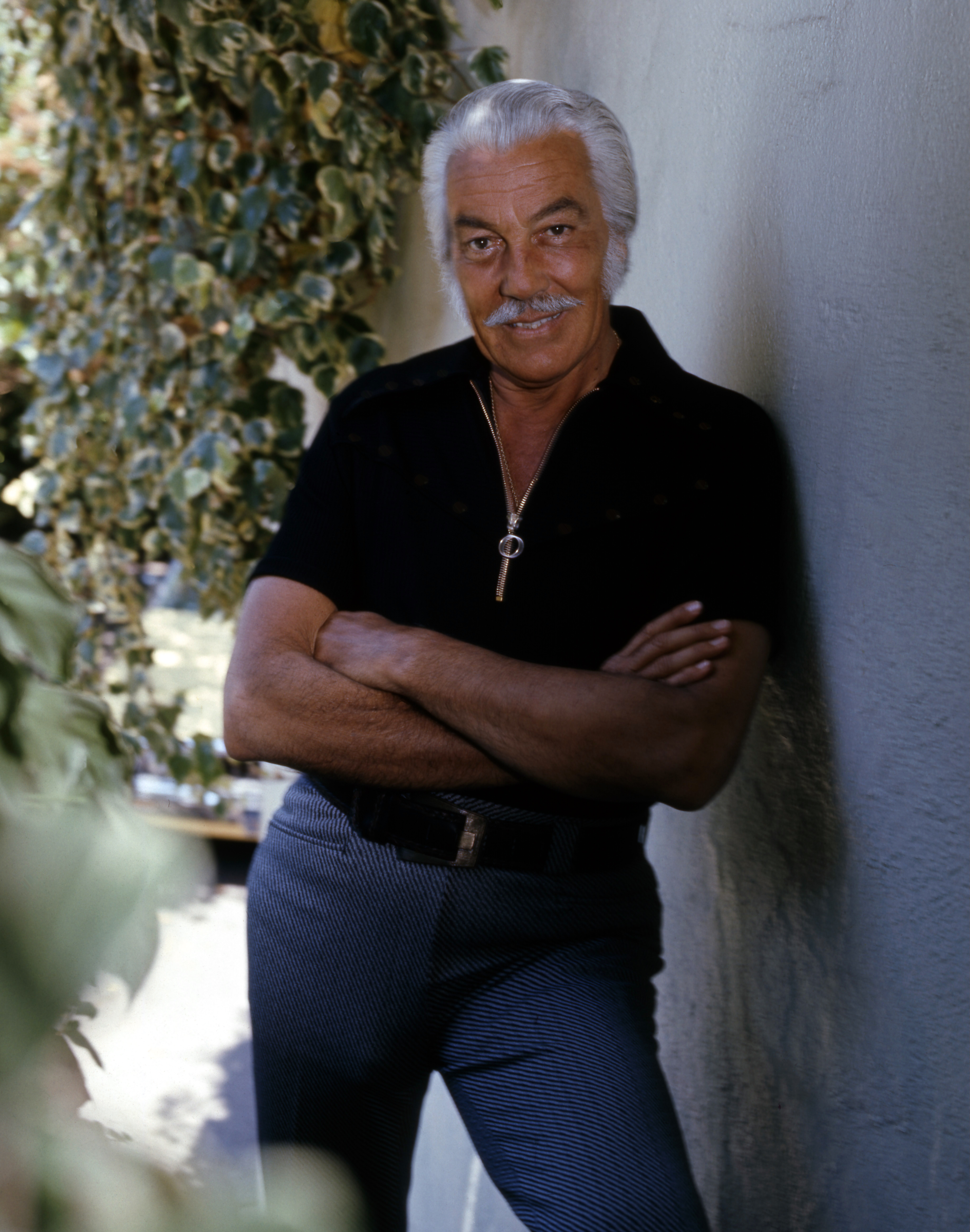 Cesar Romero taken outside his home in Beverly Hills, California